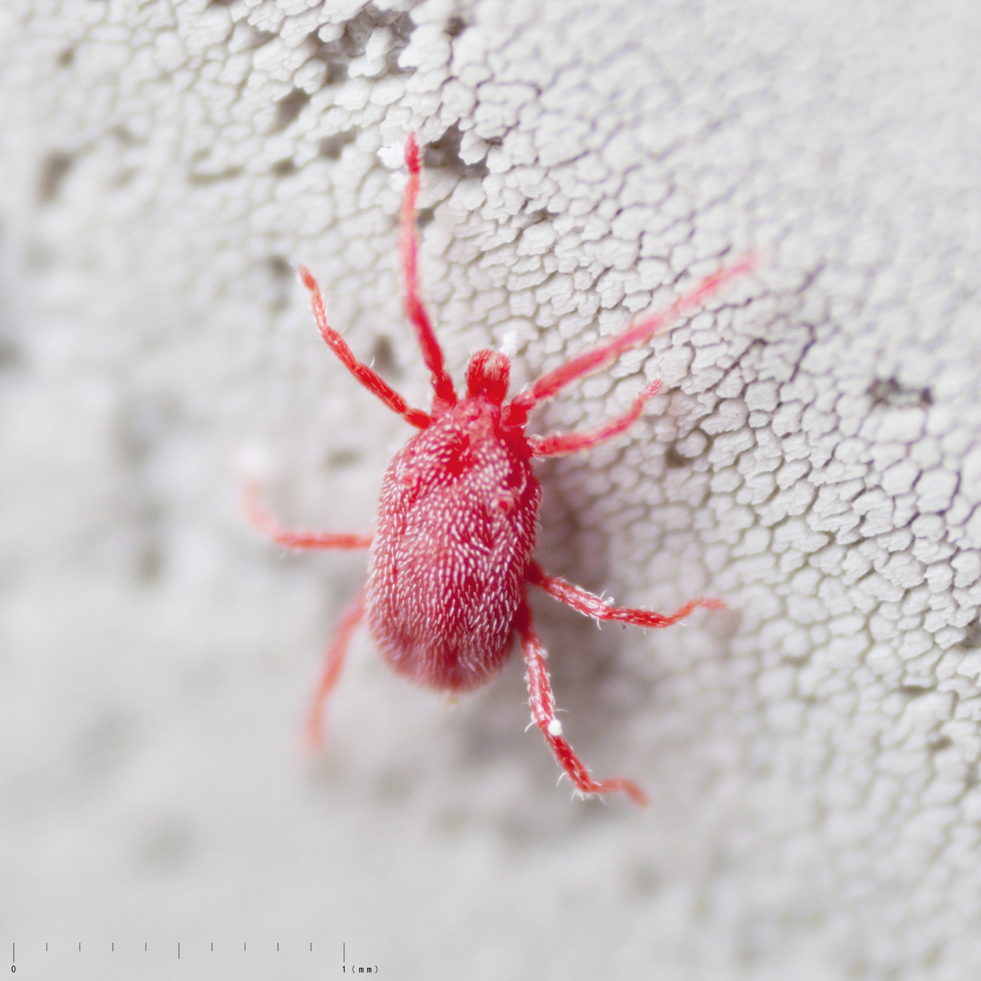 Erythraeidae, Balaustium murorum ?